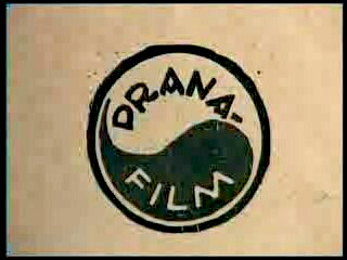 Prana-Film symbol